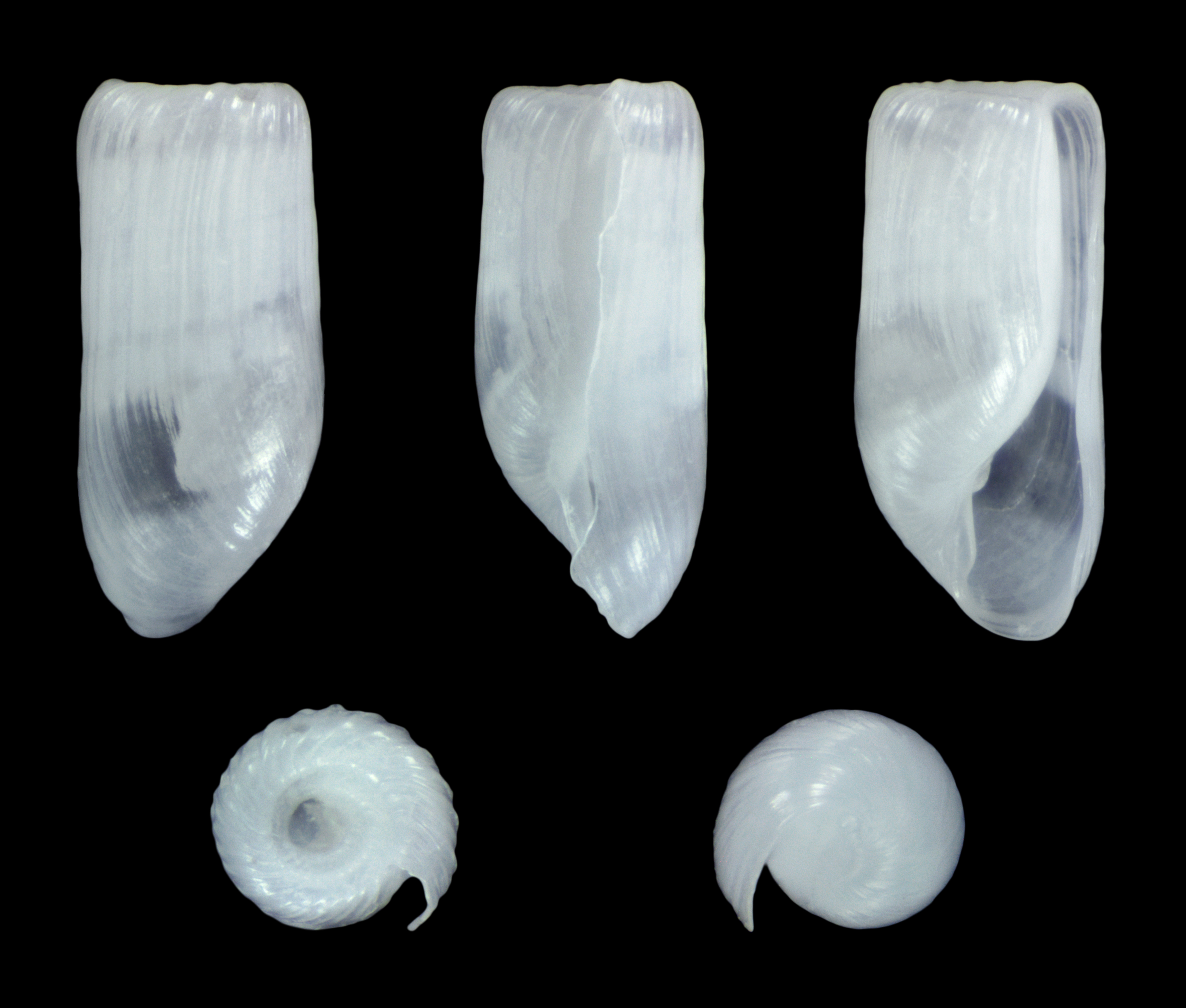 Retusa leptoeneilema Monterosato, 1923; length 0.19 cm; Originating from Mallorca, Spain; Shell of own collection, therefore not geocoded.